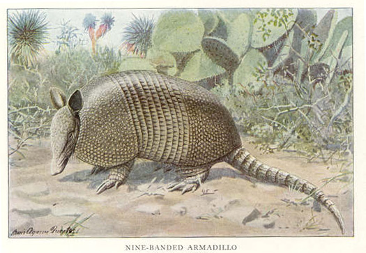 Lithograph of a nine-banded armadillo from the 1918 National Geographic Small Mammal series